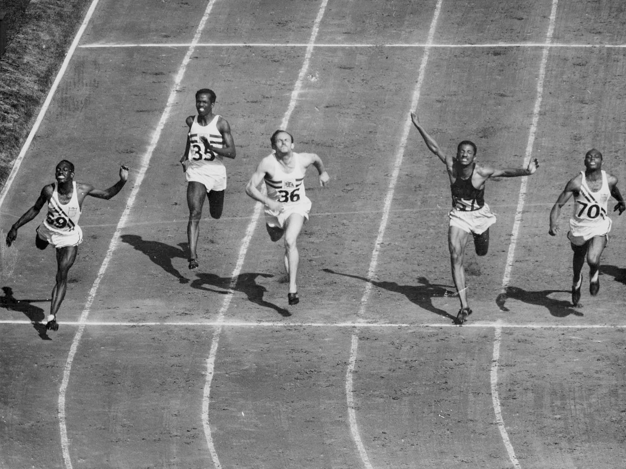 The Olympic Games 100 metres final at Wembley Stadium with Harrison Dillard of USA winning in 10.3 seconds. This equals the previous best Olympic performances of Eddie Tolan in 1932 and Jessie Owens in 1936. Dillard (b.1923) failed to qualify for the 110 metres hurdles, his speciality, at the Olympic trials but did qualify in third and last place for the 100 metres event. Dillard went on to qualify for the 110 metres hurdle event at the Olympics in Helsinki in 1952 and won gold. Daily Herald Archive at the National Media Museum